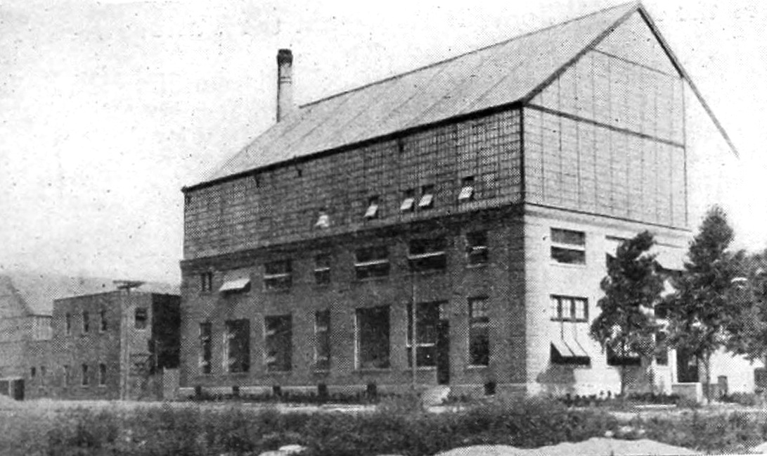 Illustration of an article in The Moving Picture World